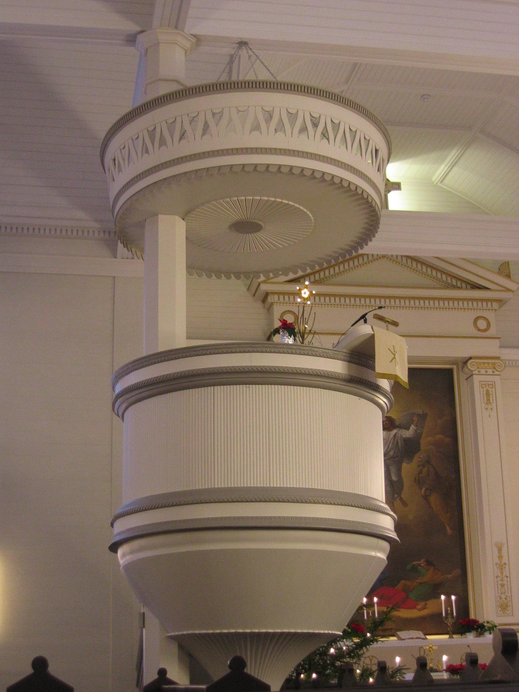 The pulpit of the church of Parikkala, Finland.